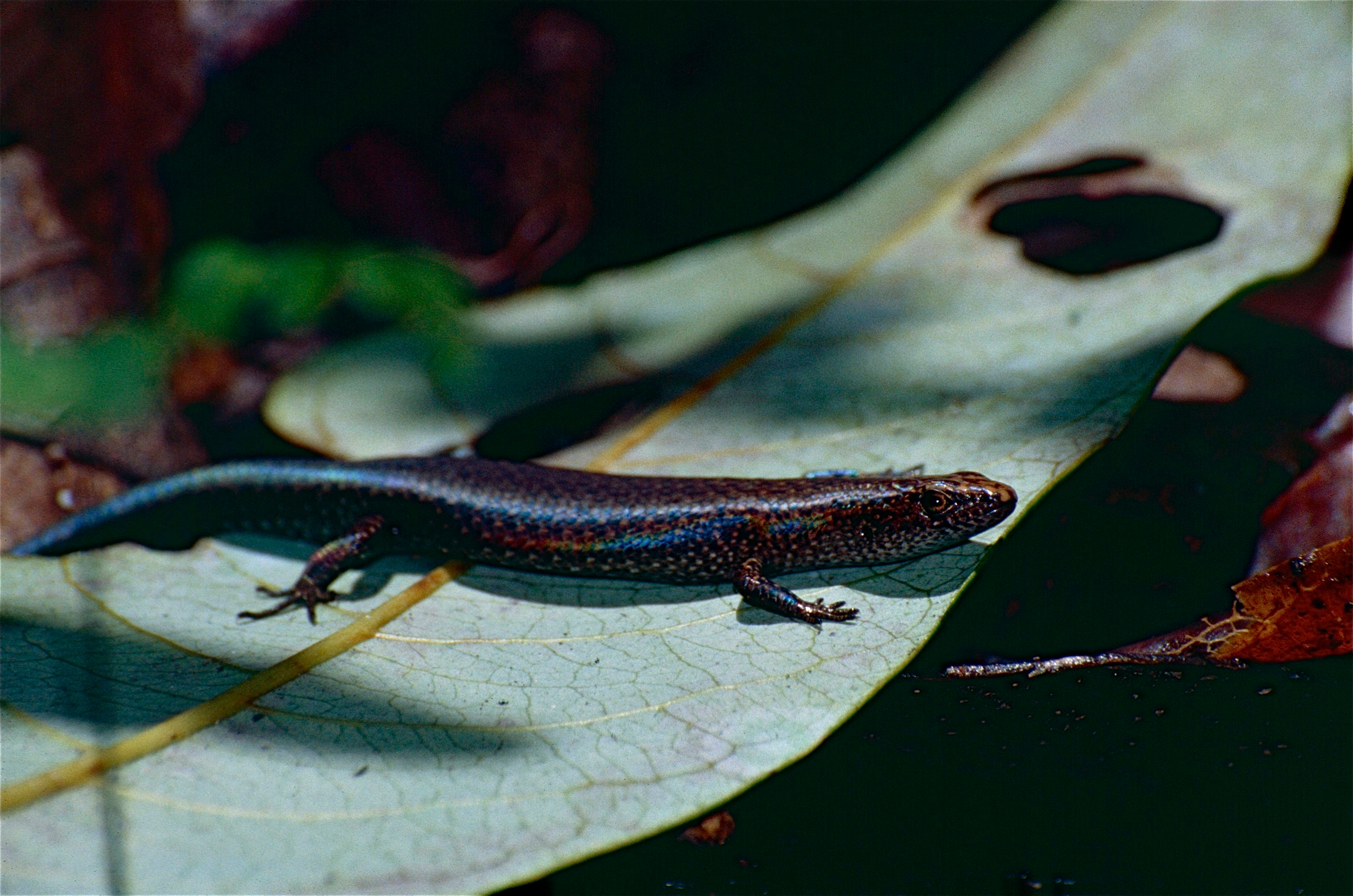 Mount Hypipamee NP, Malanda, North Queensland, AUSTRALIA Scanned Slide from Nov 2000